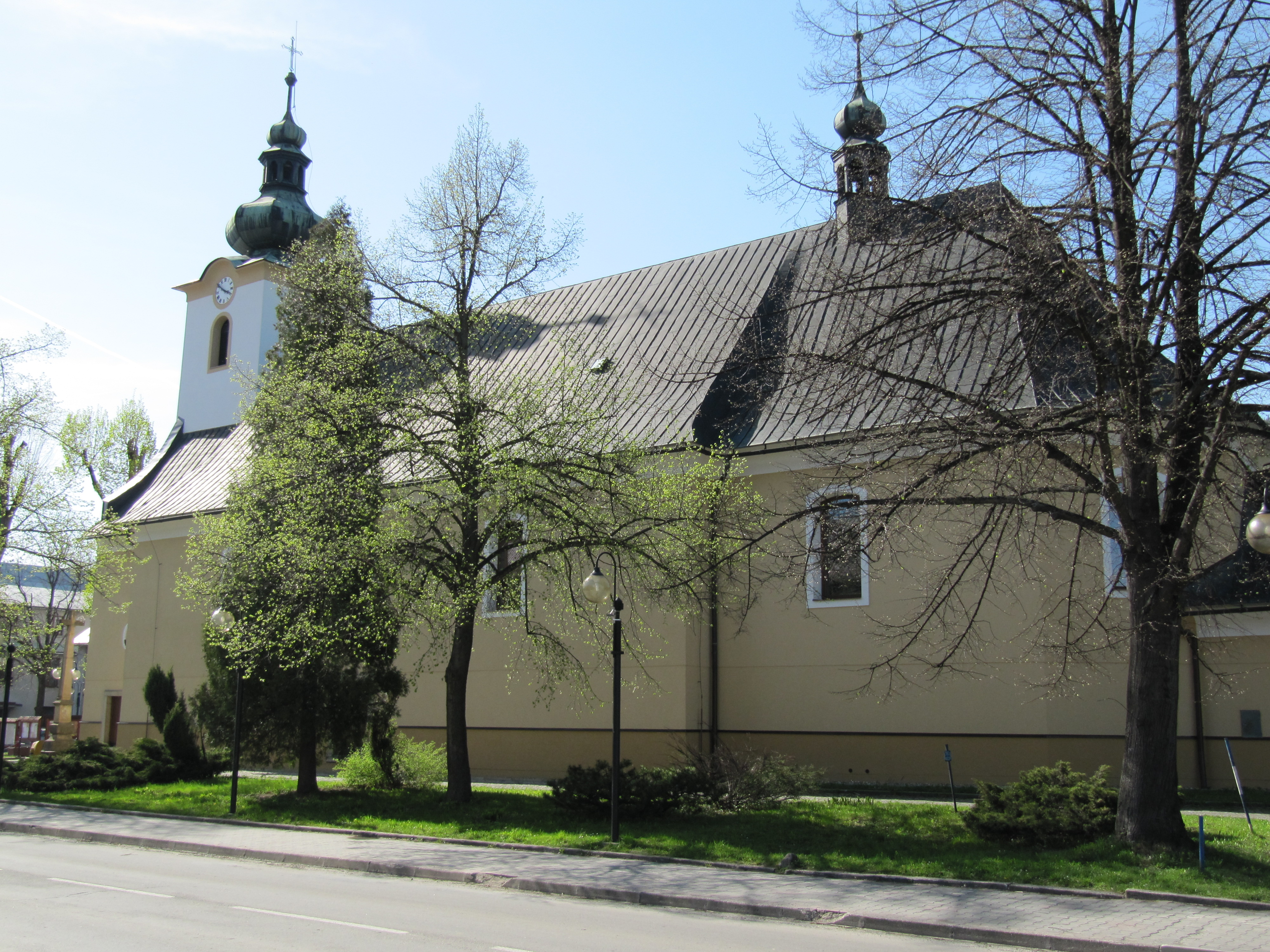 Nový Hrozenkov, Vsetín District, Czech Republic.